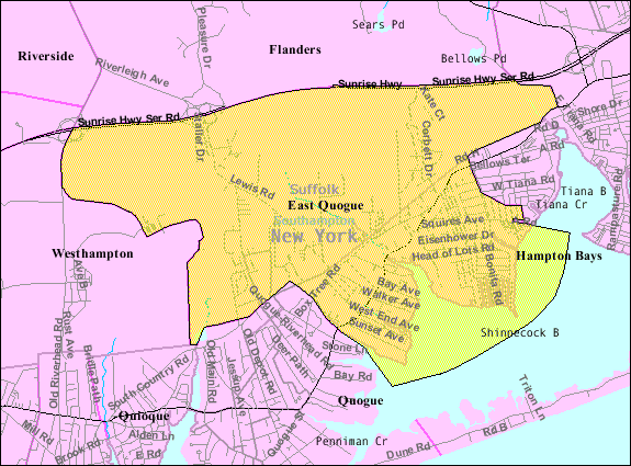 U.S. Census 2000 reference map for East Quoque